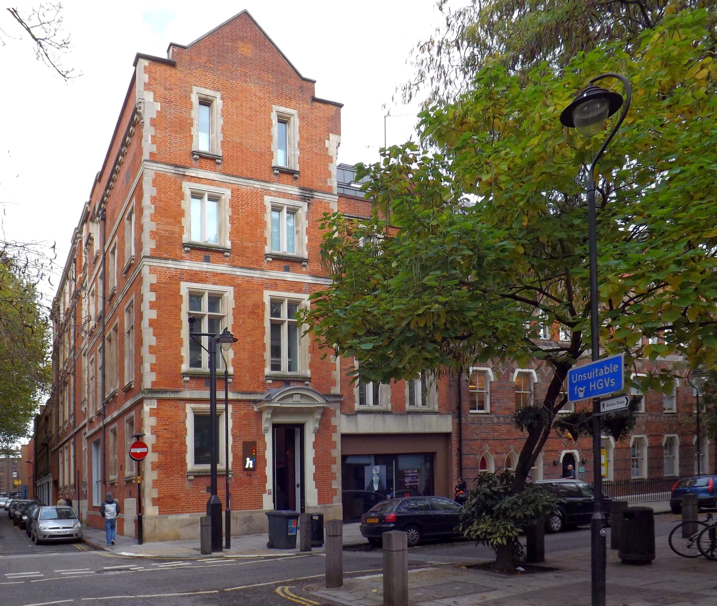 The Hospital Club in London